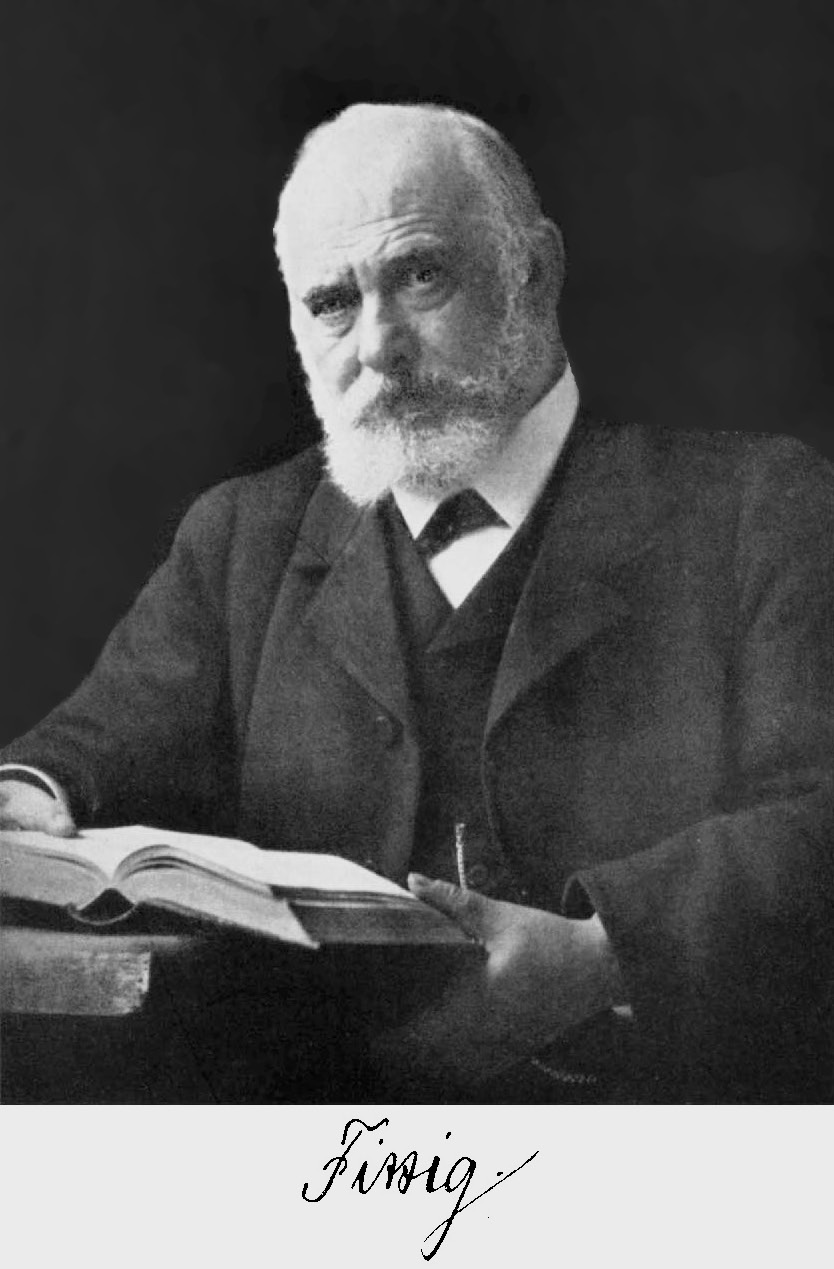 Rudolph Fittig (* 6. Dezember 1835 in Hamburg; † 19. November 1910 in Straßburg)